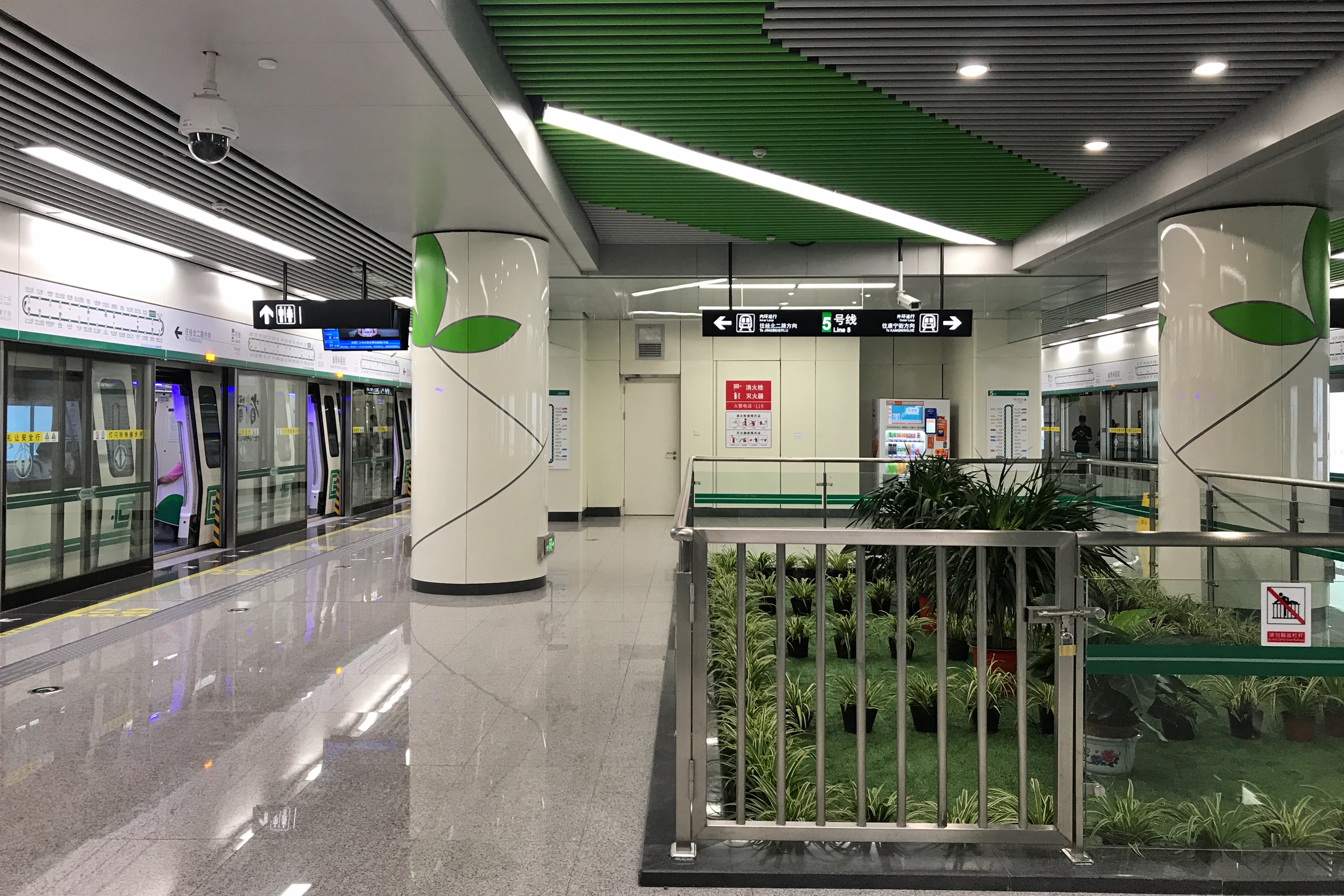 Platform of Henan Orthopaedics Hospital Station. The plant decorated area is reserved for interchange to Line 3